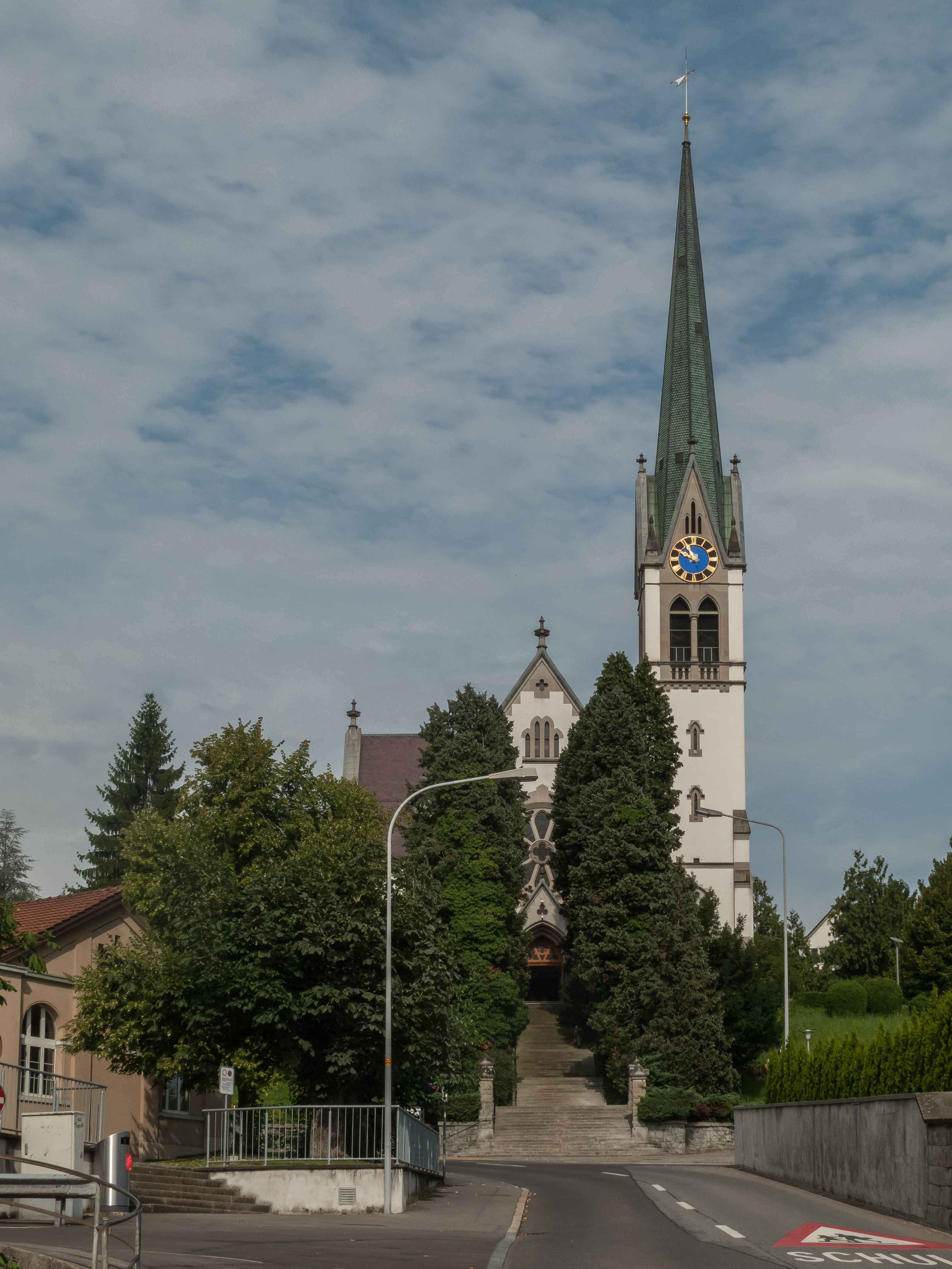 Richterswil, reformed churcd